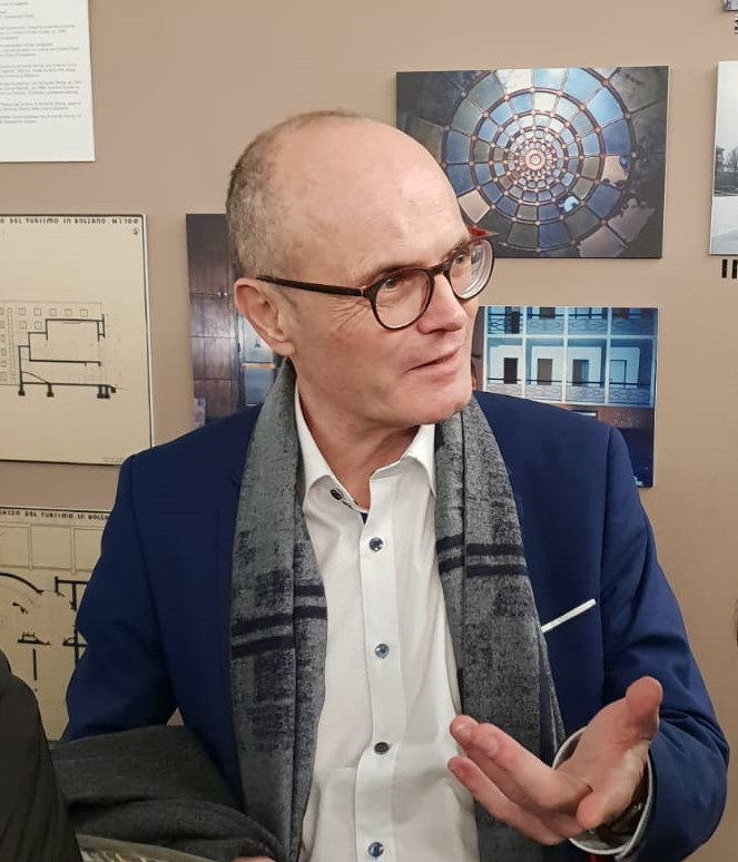 Hannes Obermair in December 2019